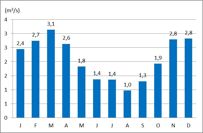 Average monthly discharges of Ščavnica River at the gauging station Pristava in 1971–2000